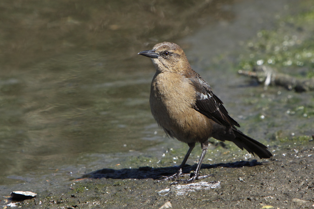 A female Brewer's blackbird at San Luis Obispo, California, USA.